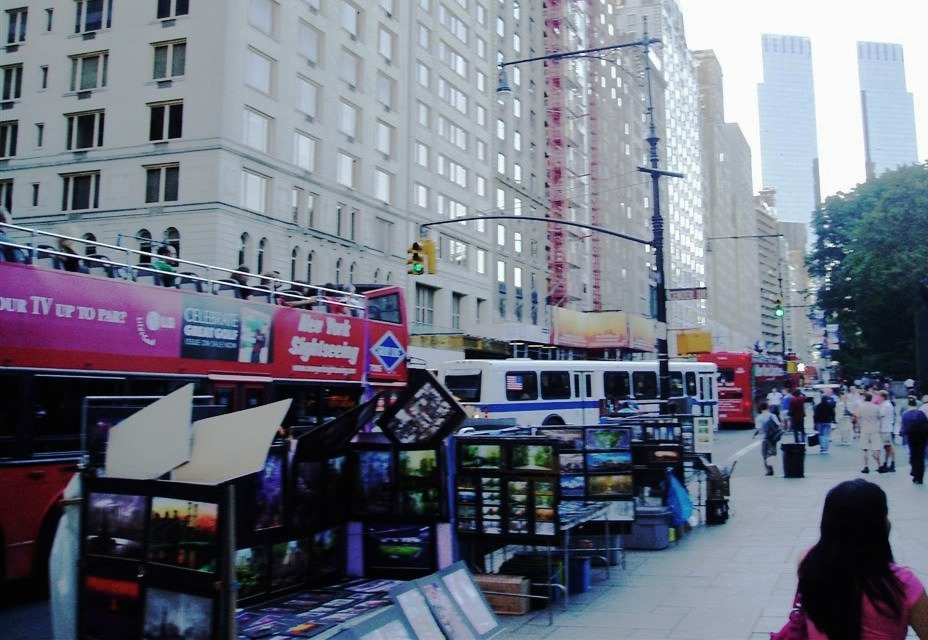 Looking west down Central Park South from the vicinity of Grand Army Plaza, Manhattan, New York City.